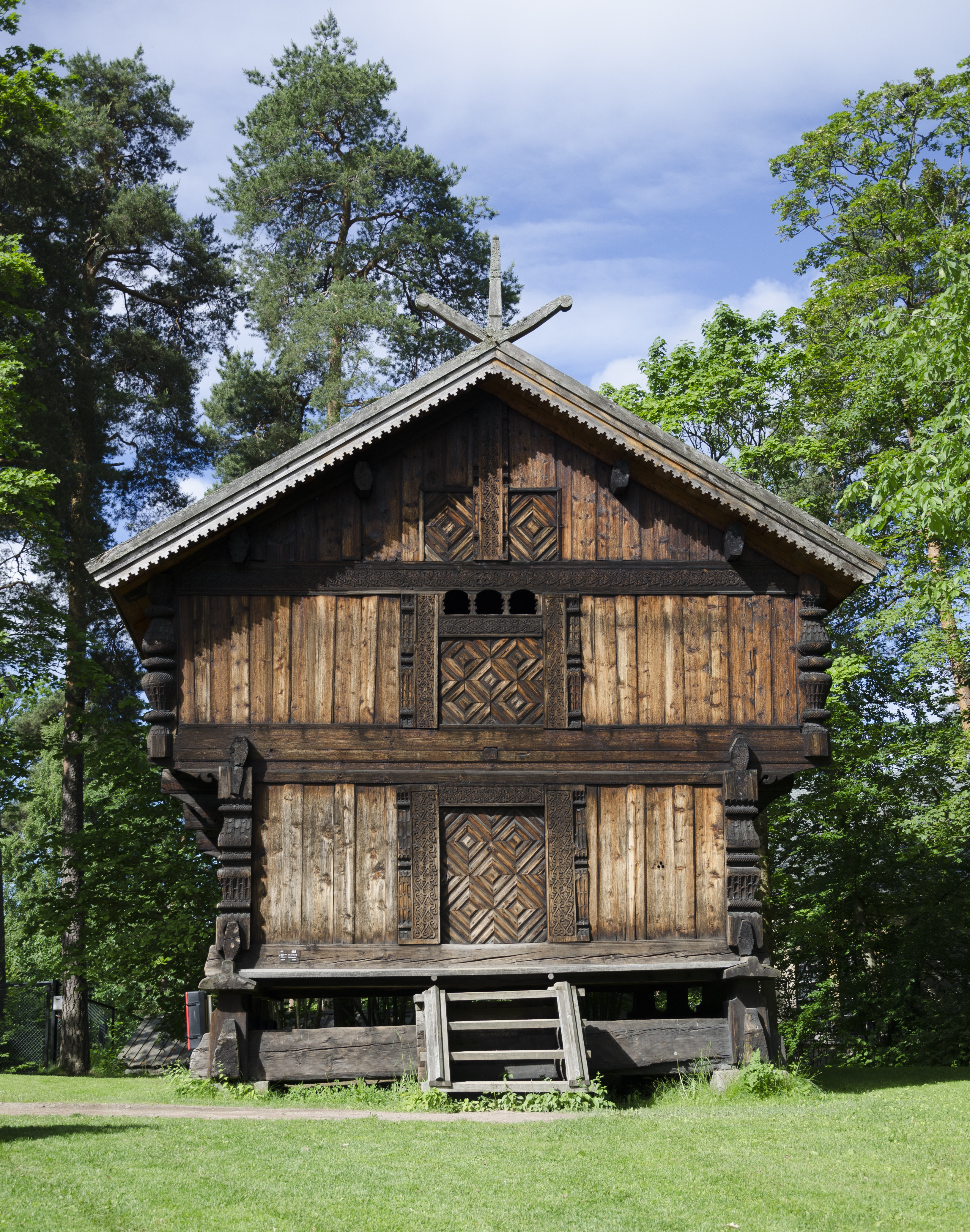 'Loft' storehouse from Berdal, southern Vinje, Telemark, Norway. Built 1750-60. Now at the Norwegian Museum of Cultural History.